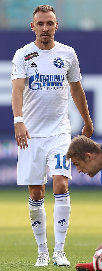 Denis Popović with FC Orenburg in a game against FC Dynamo Moscow.